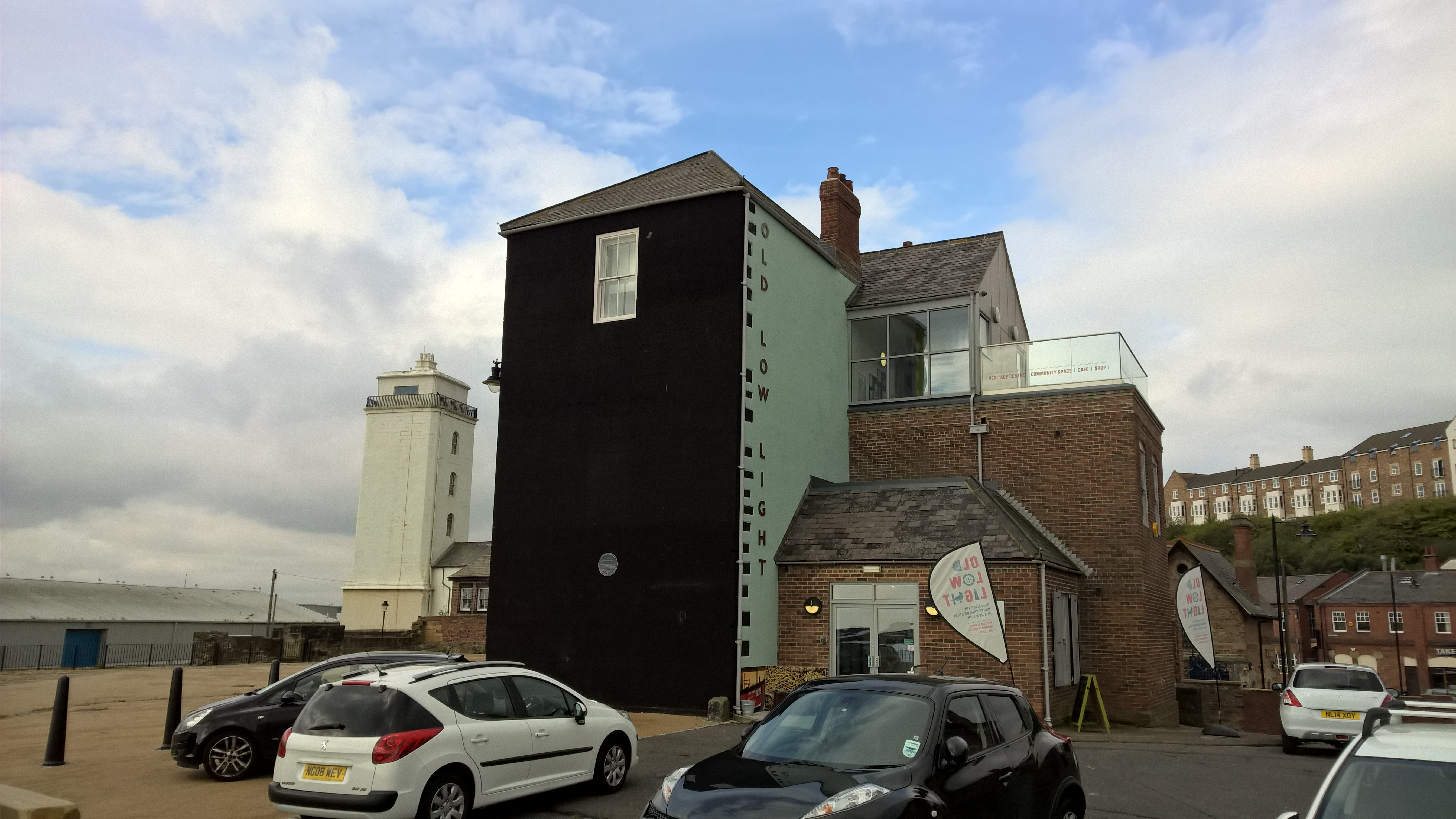 Old Low Light, built 1727. When it was superseded by the New Low Light, to its left, its white east wall was repainted in black to prevent confusion with the new light when seen from the sea.